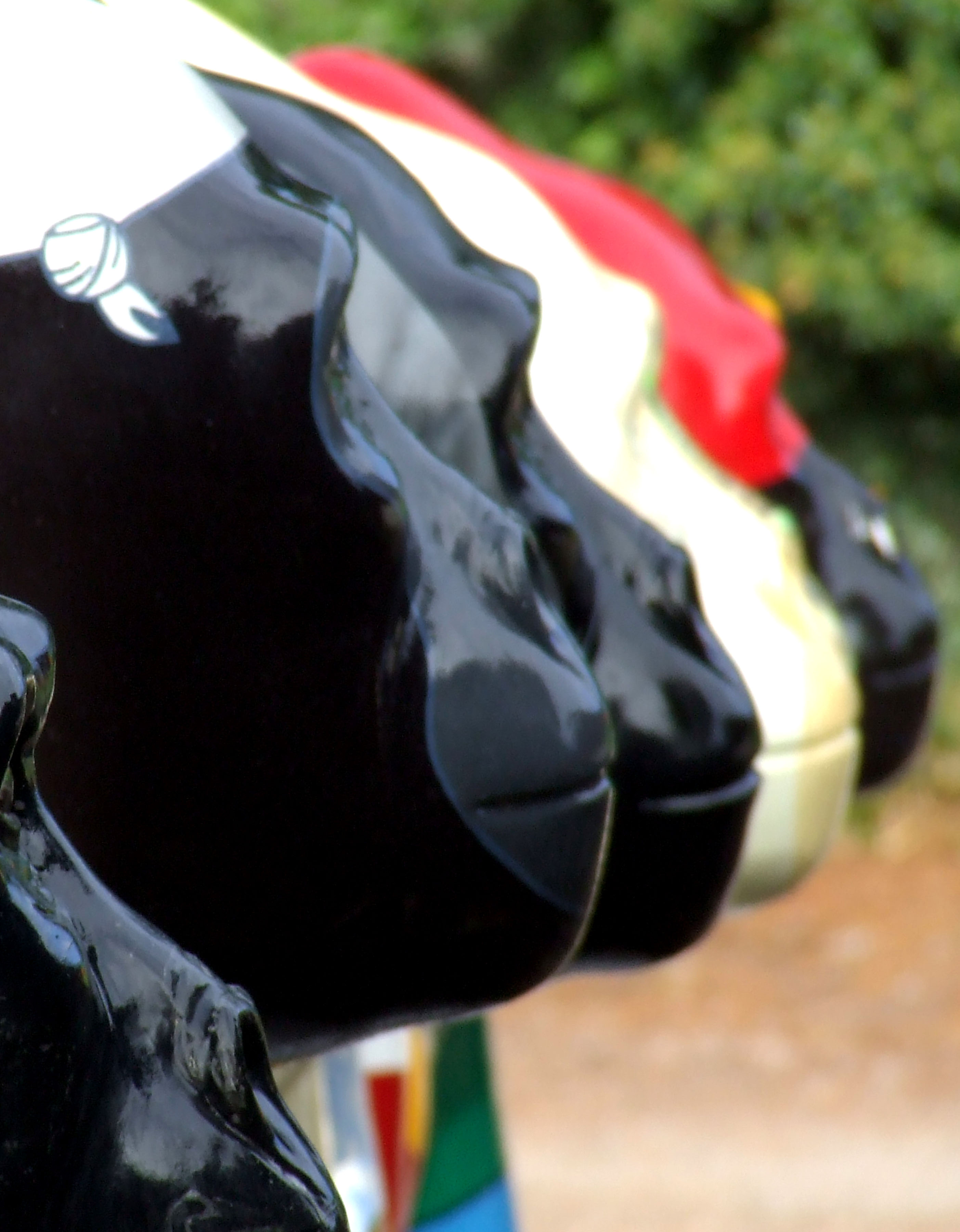 Paignton Zoo Great Gorillas 2013